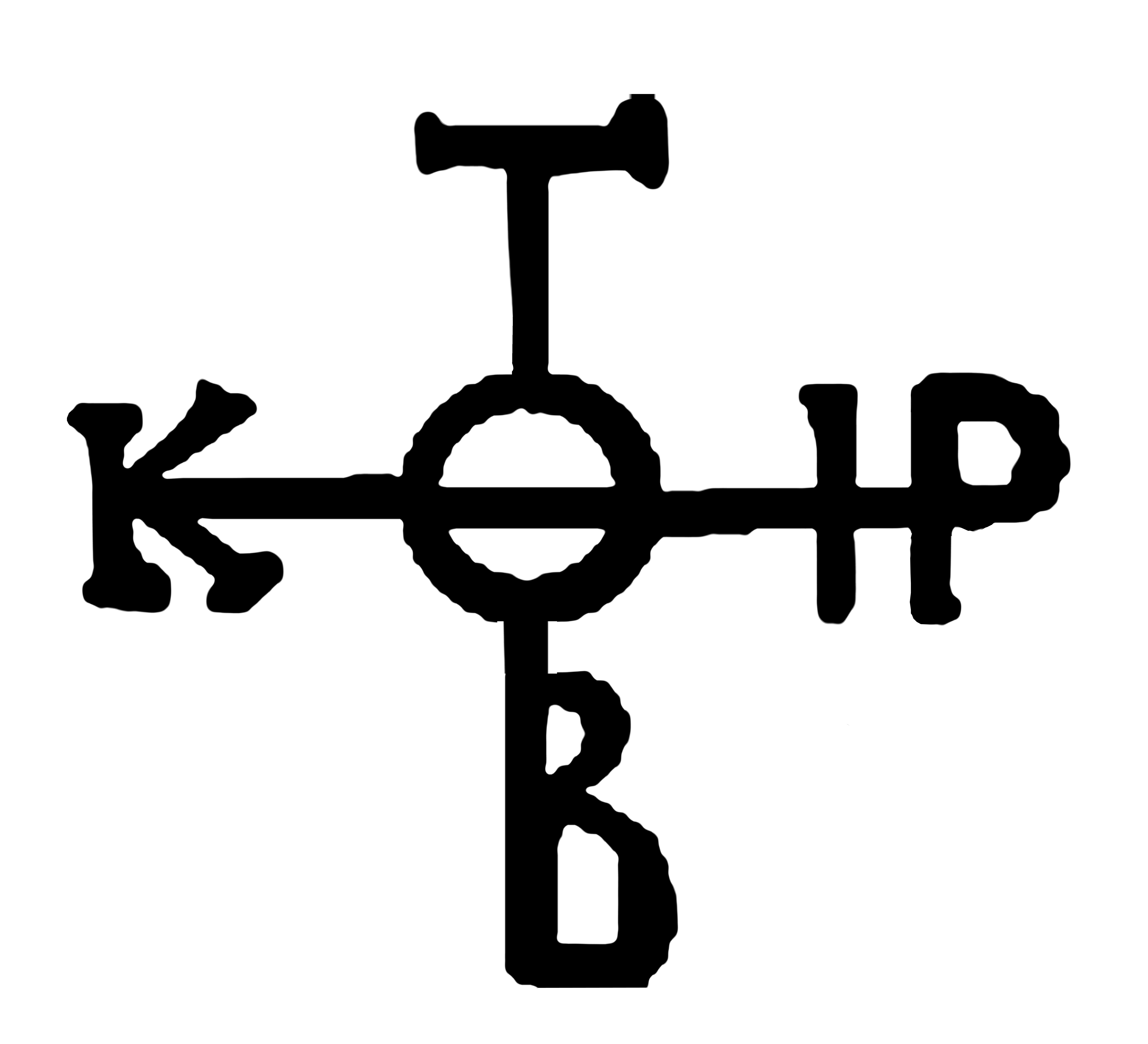 Tervel of Bulgaria monogram